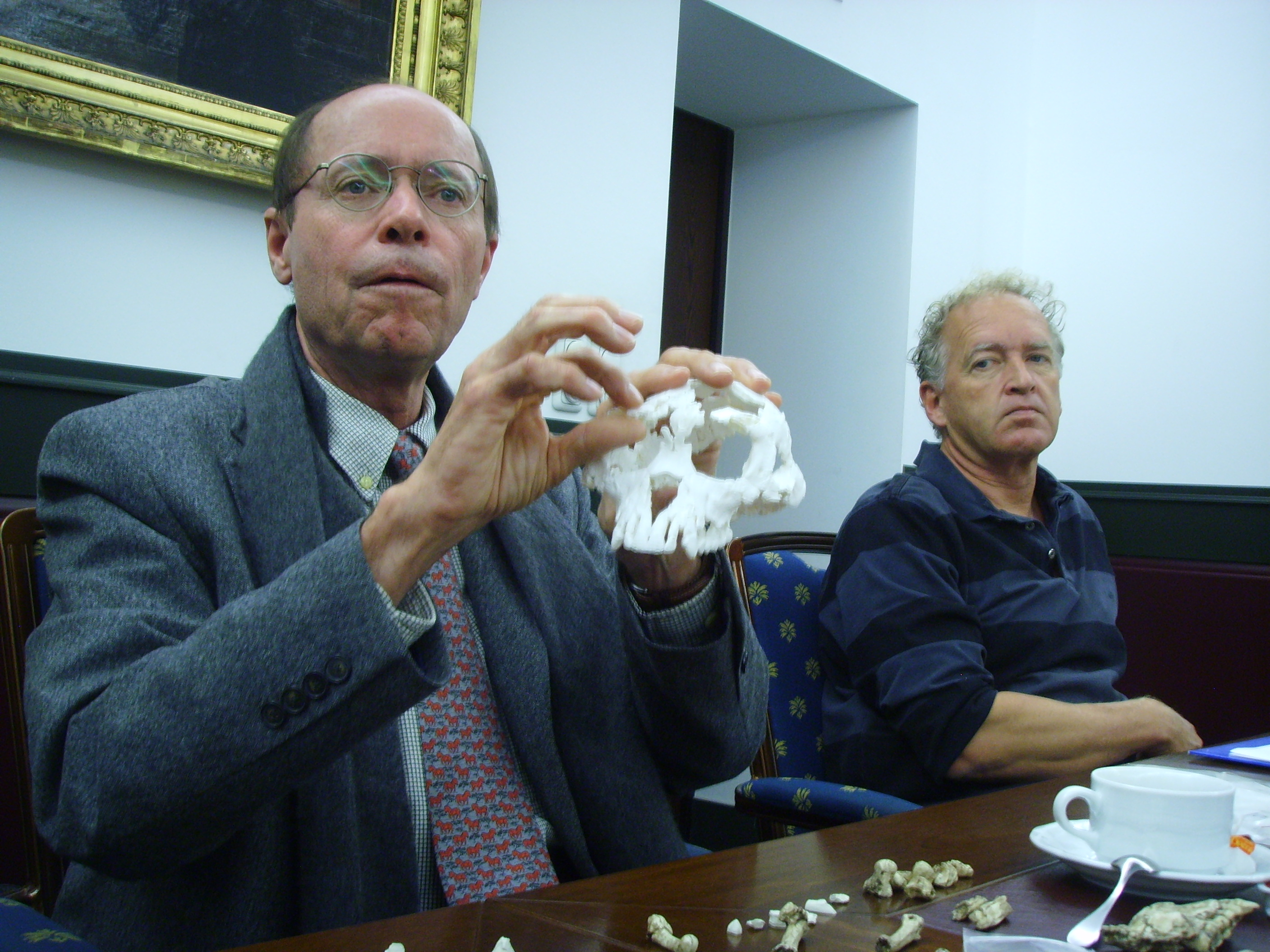 Tim White, American Paleoanthropologist and Professor of Integrative Biology at the University of California, Berkeley, cast of "Ardi", and Friedemann Schrenk, Professor of Palaeoanthropology, Frankfurt am Main, Germany